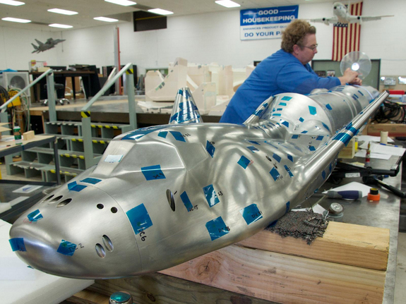 The Dream Chaser model with its Altas V launch vehicle is undergoing final preparations at the Aerospace Composite Model Development Secion at NASA Langley